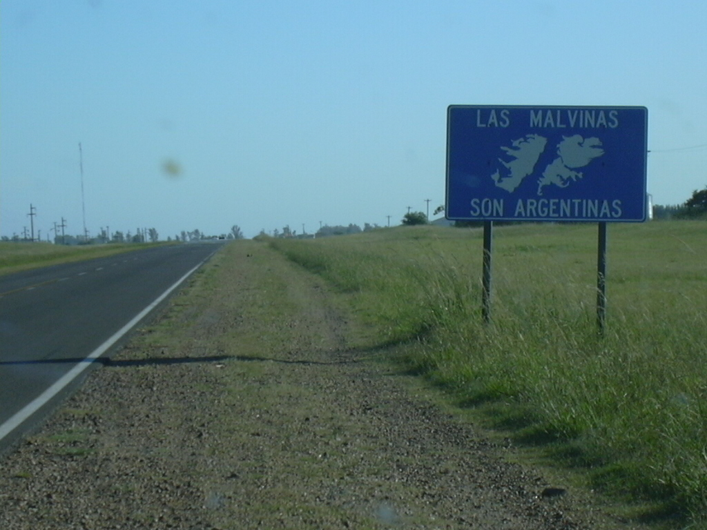 A road sign in the Argentinian province of Entre Ríos claiming the Falkland Islands for Argentina.